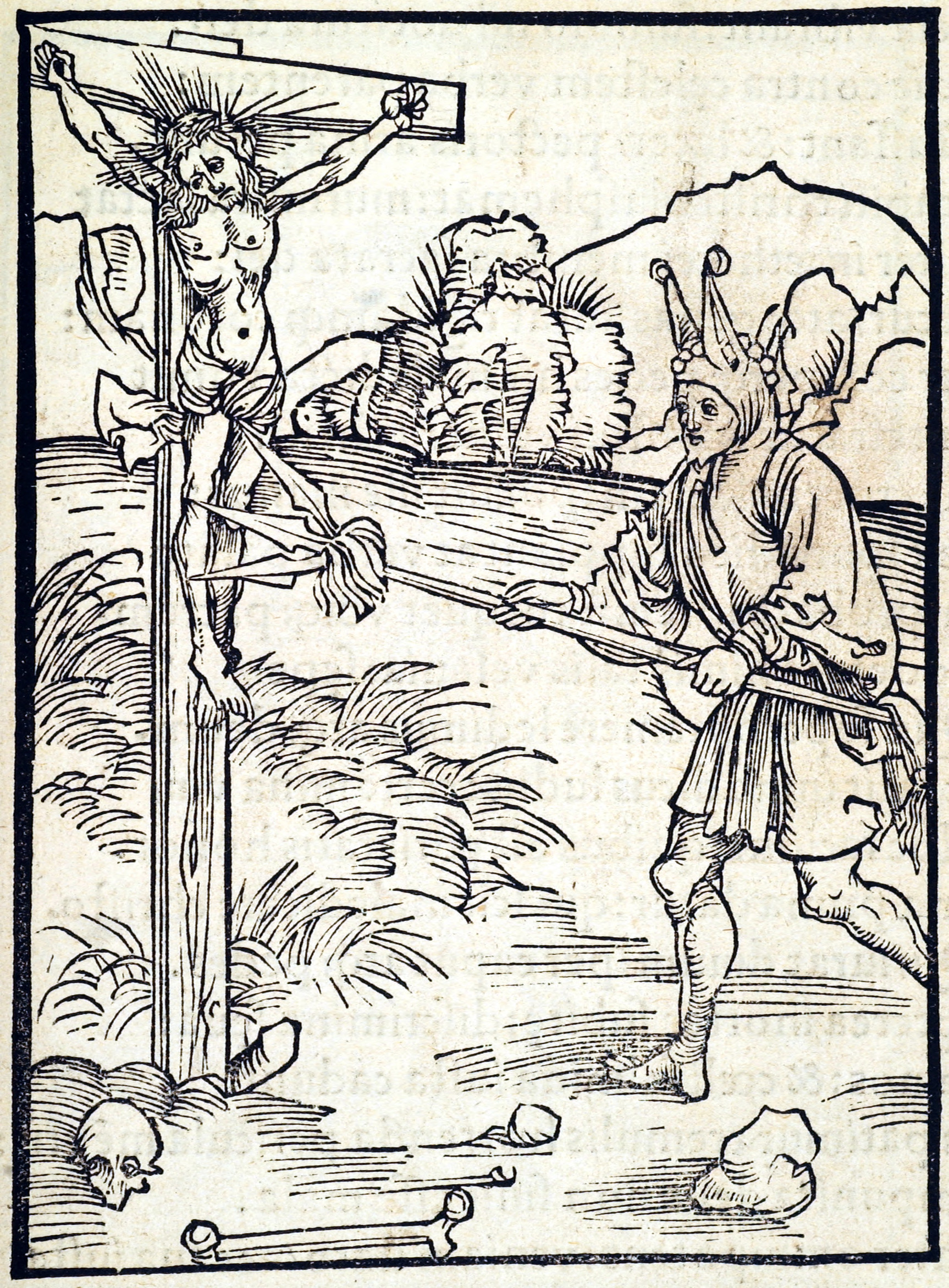 Woodcut illustrations to Sebastian Brant’s Narrenschiff (1494), made by or attributed to Albrecht Dürer. The satirical Das Narrenschiff, published in Basel, Switzerland, by Sebastian Brant, was the most succesful German-language book before the Reformation and became known all over Europe.